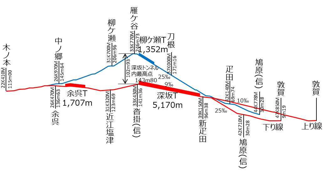 Vertical figure comparing old Hokuriku mainline route using Yanagase tunnel in blue solid line and new Hokuriku mainline route using Fukasaka tunnel in red solid line. Between Shin-Hikida and Tsuruga, different routes are assigned to northbound/southbound traffics in new Fukasaka tunnel route.